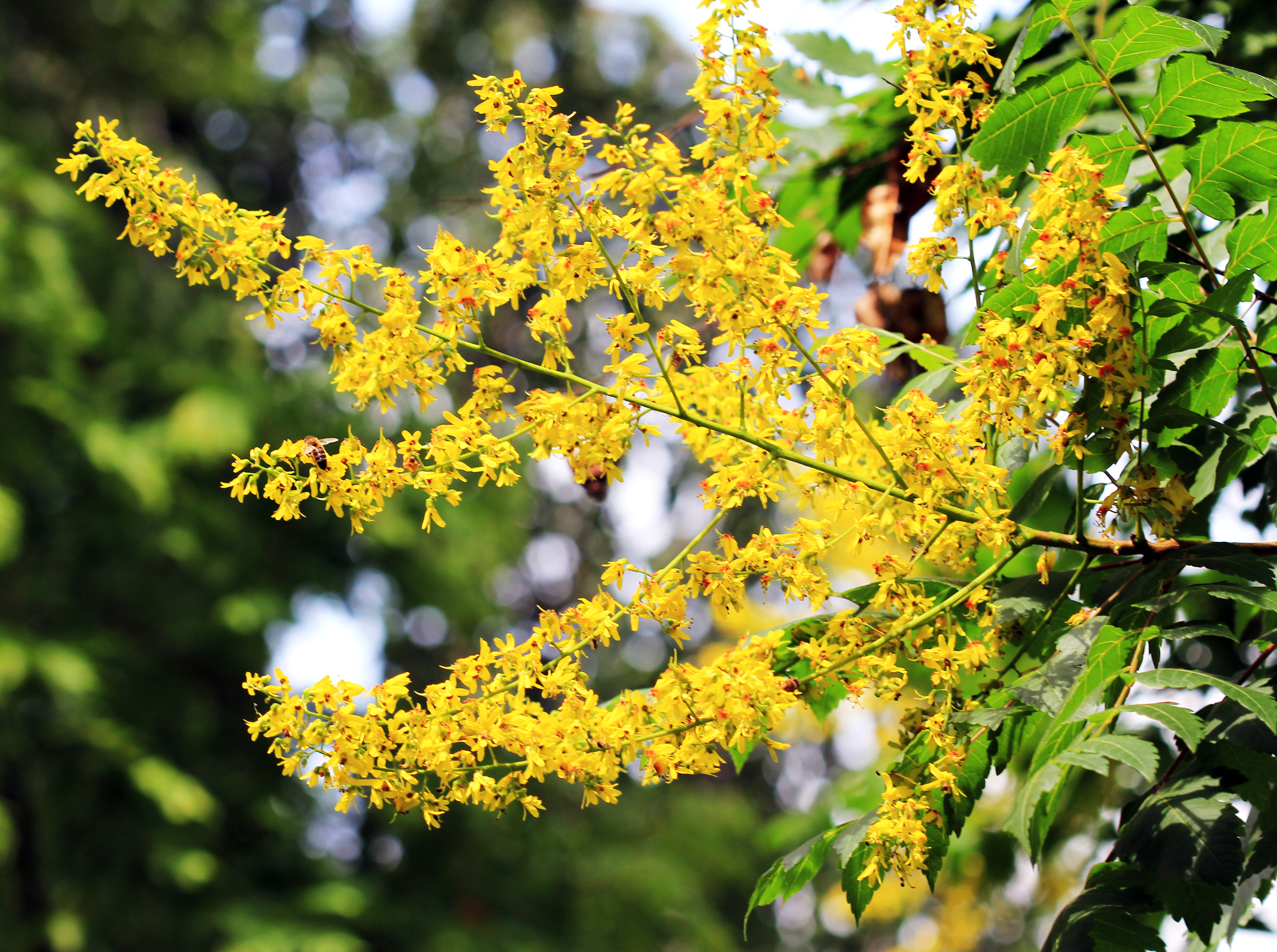 Flower of tree Koelreuteria paniculata from the Botanical Gardens of Charles University, Prague, Czech Republic